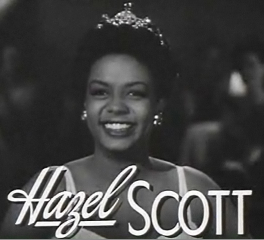 Cropped screenshot of Hazel Scott from the trailer for the film Rhapsody in Blue.